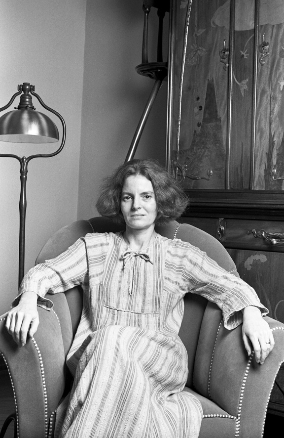 Denise Scott Brown photographed in her home 1978 © Lynn Gilbert